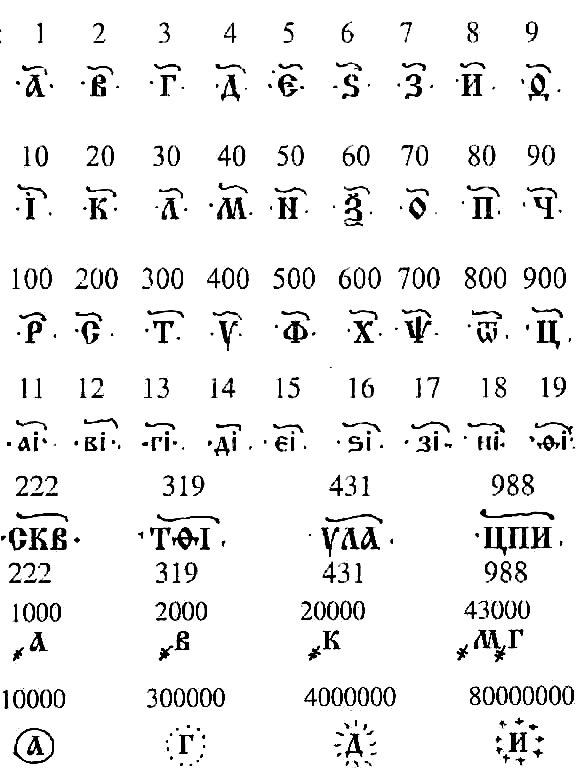 Cyrillic numbers